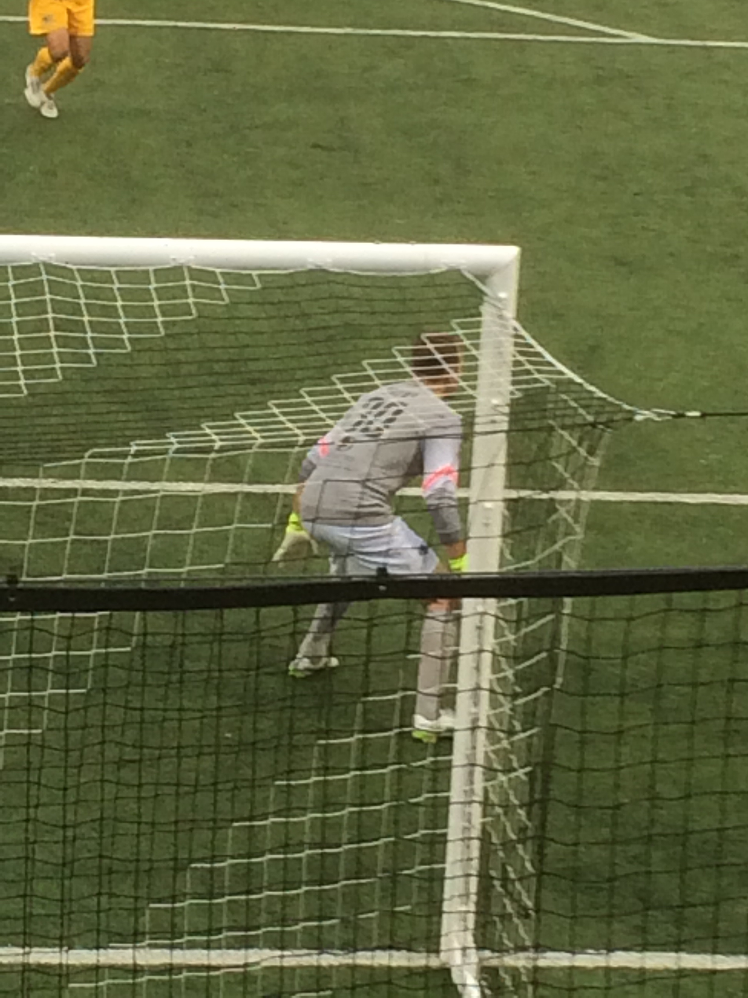 Calle Brown in goal for Riverhounds debut on 5-16-15